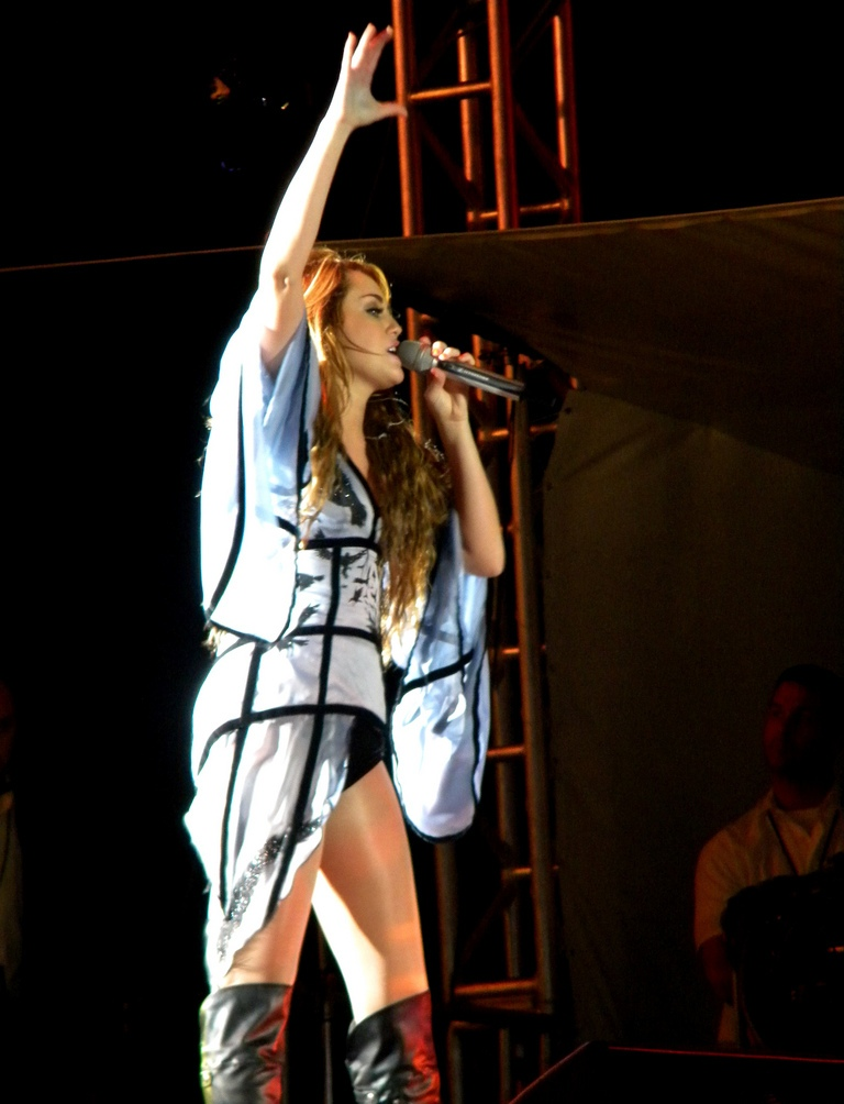 Pop singer Miley Cyrus performing in São Paulo, Brazil as part of her Gypsy Heart Tour in 2011.